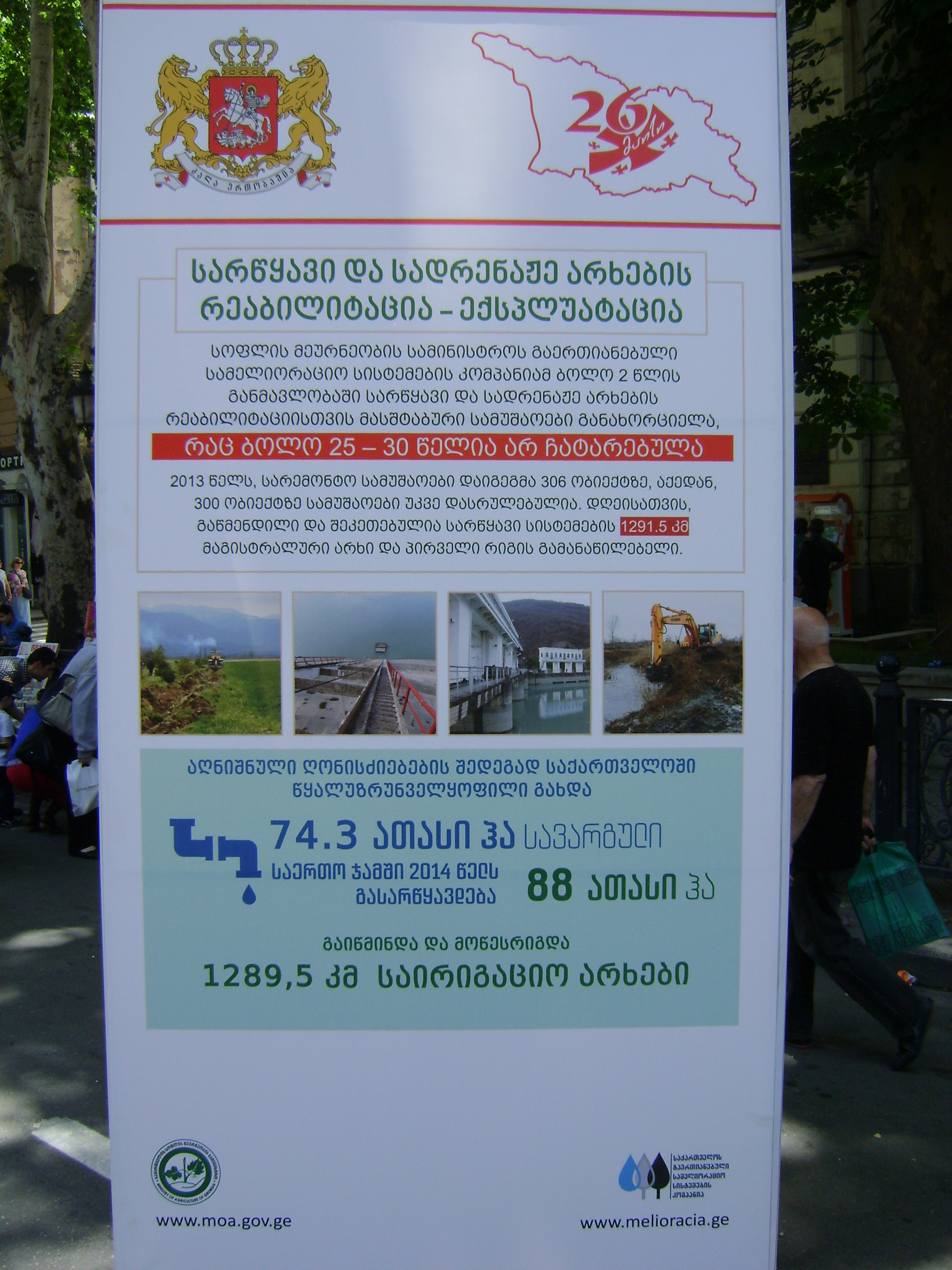 Tbilisi, Georgia — Celebration and Exhibition on Independence day, May 26, 2014